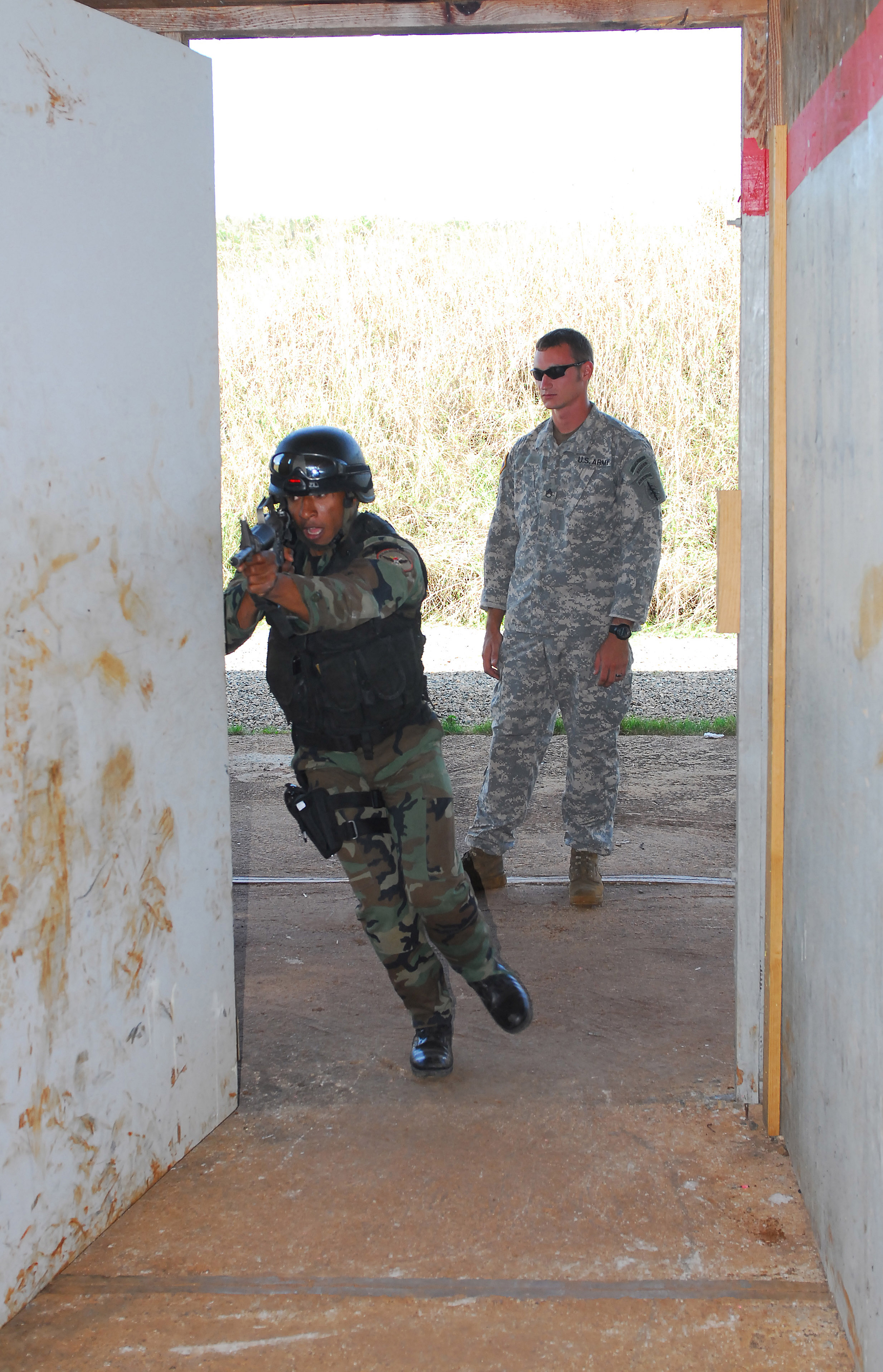 A U.S. weapons sergeant assigned to 7th Special Forces Group observes as commando assigned to the Ministerio de Estado de las Fuerzas Armadas, known as the MEFA, rush into the door in order to conduct room clearing procedures during a training exercise near Santo Domingo, Dominican Republic, March 3. A team of U.S. Green Berets, based out of Fort Bragg, N.C., are training the commandos as part of Exercise Fused Response 2011.(Photo by Sgt. 1st Class Alex Licea)